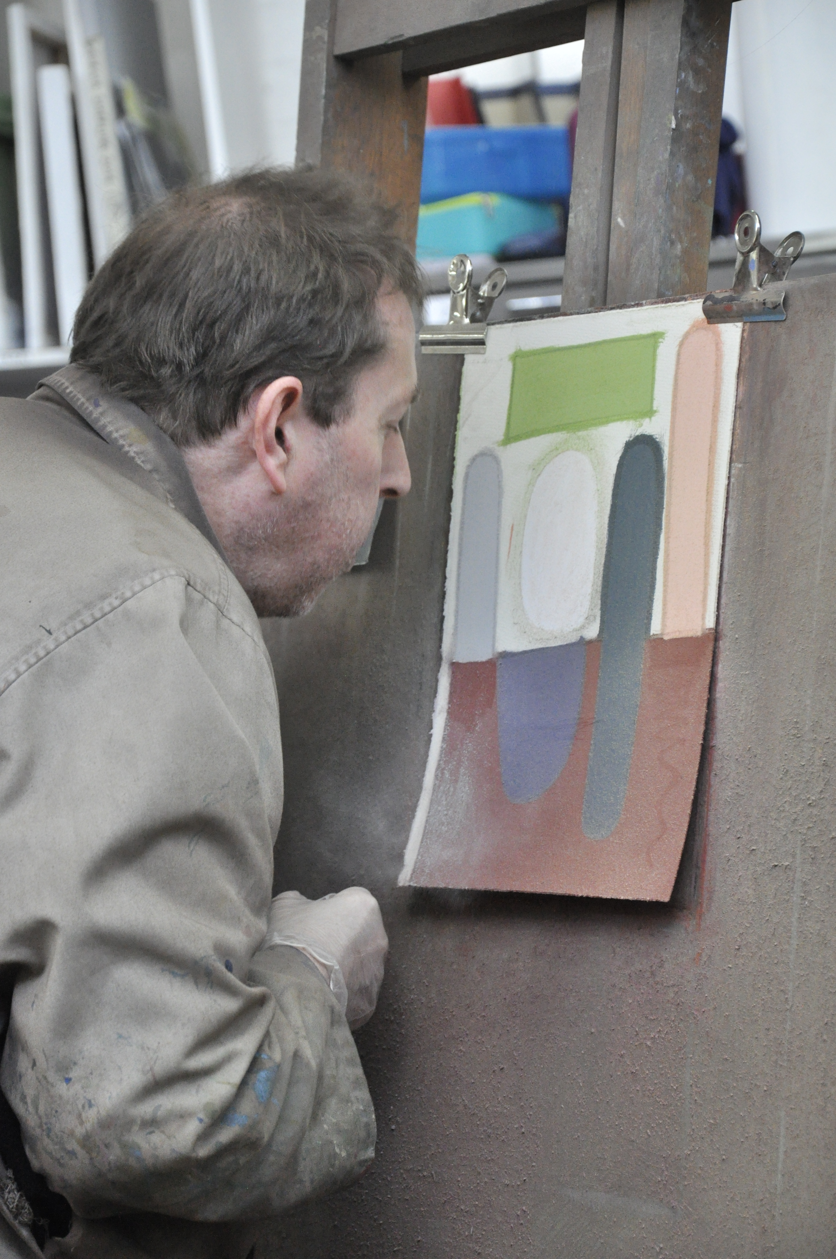 Image of Australian artist Julian Martin.